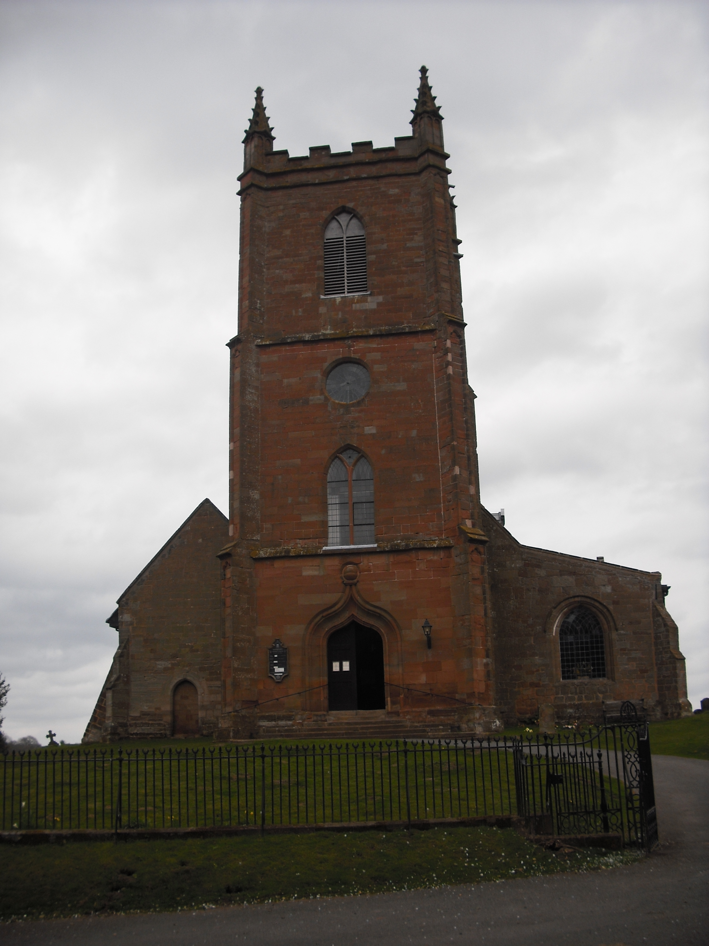 St Mary the Virgin, Hanbury - front